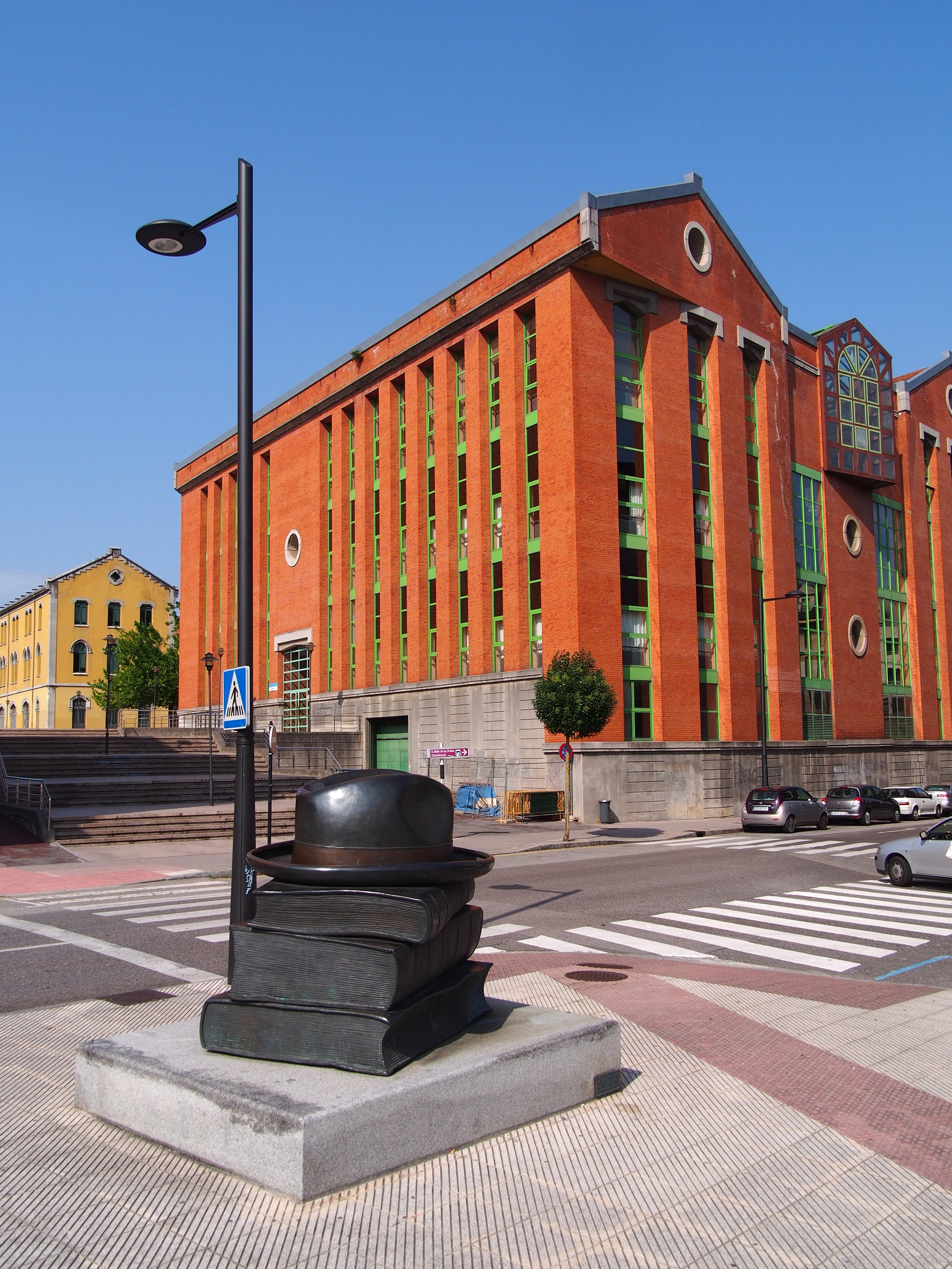 University of Oviedo - 2013.07